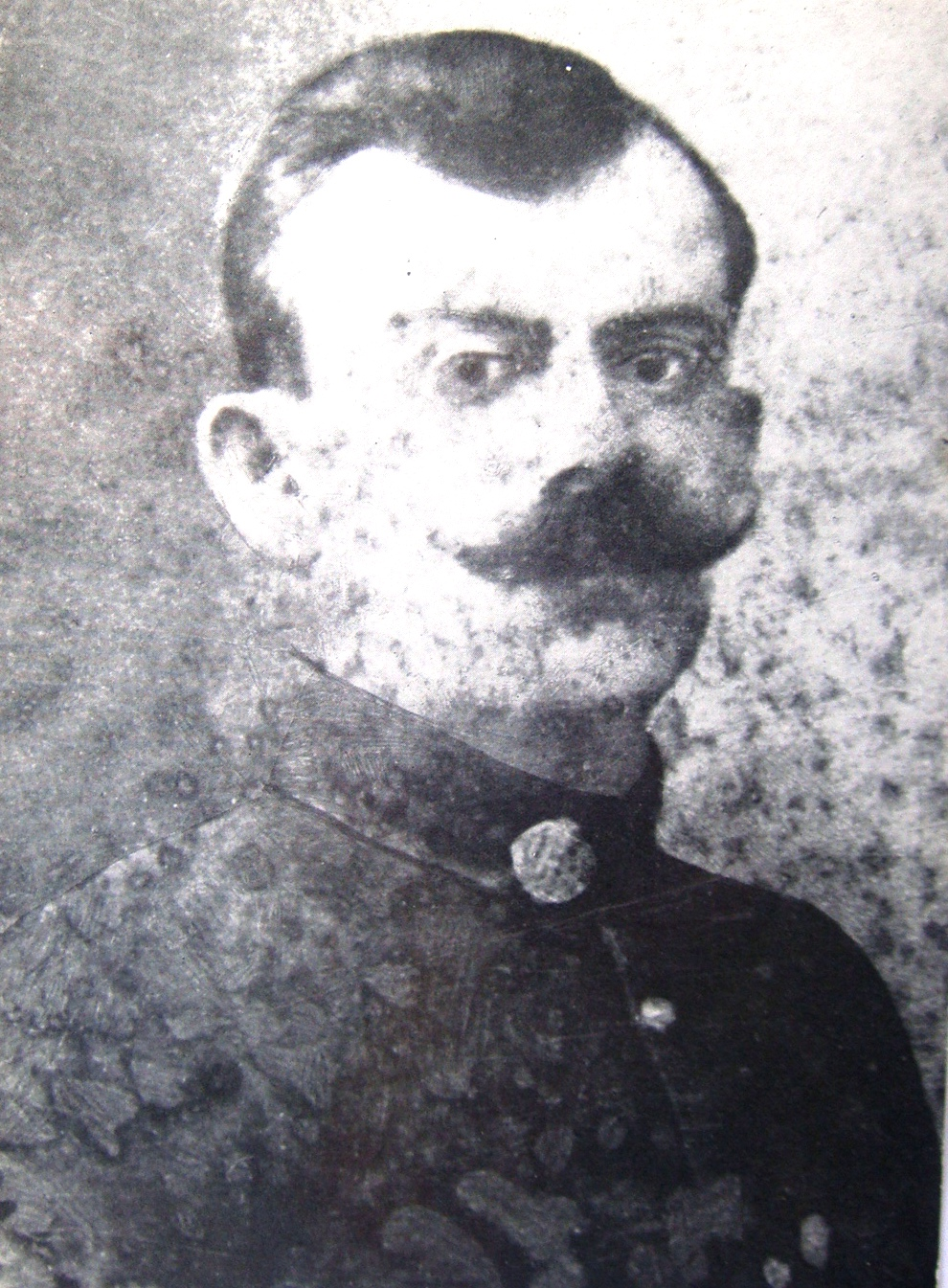 Zef Lush Marku (1885-1920), a revolutionary fighter, a member of the Local Organization of KPJ in Skopje This media file is produced by Wikipedian in Residence in Category:Wikipedian in Residence at DARM in 2016.